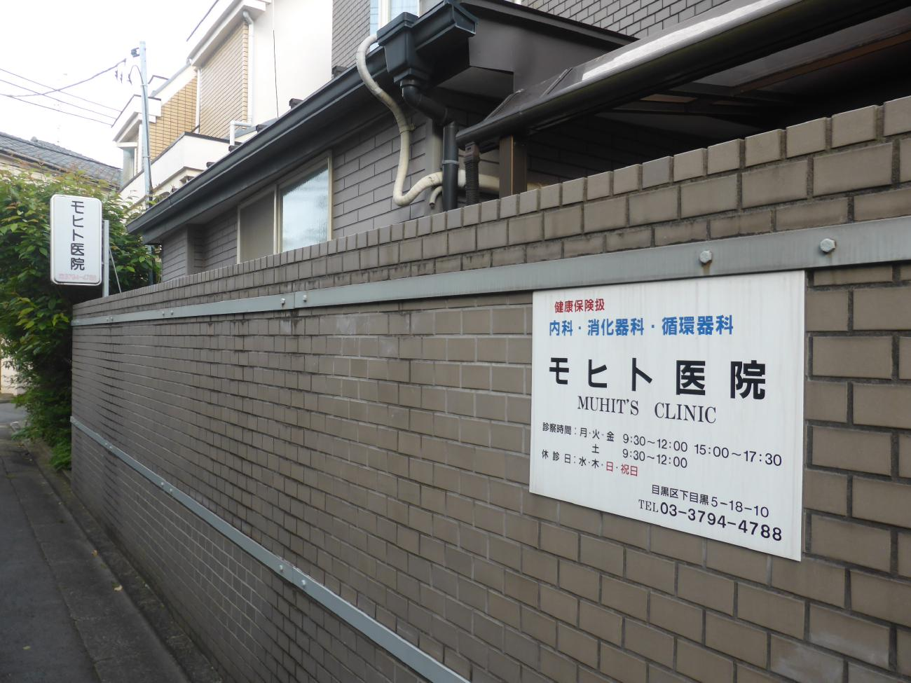 A private clinic is right behind the Embassy of Djibouti in Tokyo.